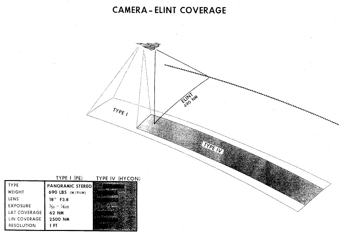 ground path of cameras and ELINT sweep of A-12